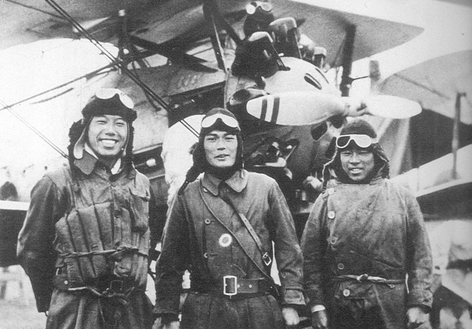 Imperial Japanese Navy (IJN) fighter pilots who, on 22 February 1932, scored the first aerial victory in the IJN's history. The shoot-down occurred over Shanghai during the Shanghai incident and the pilots were flying the A1N2 Type 3 fighter aircraft. From left to right the pilots are: Nokiji Ikuta, Toshio Kuroiwa, and Kazuo Takeo.